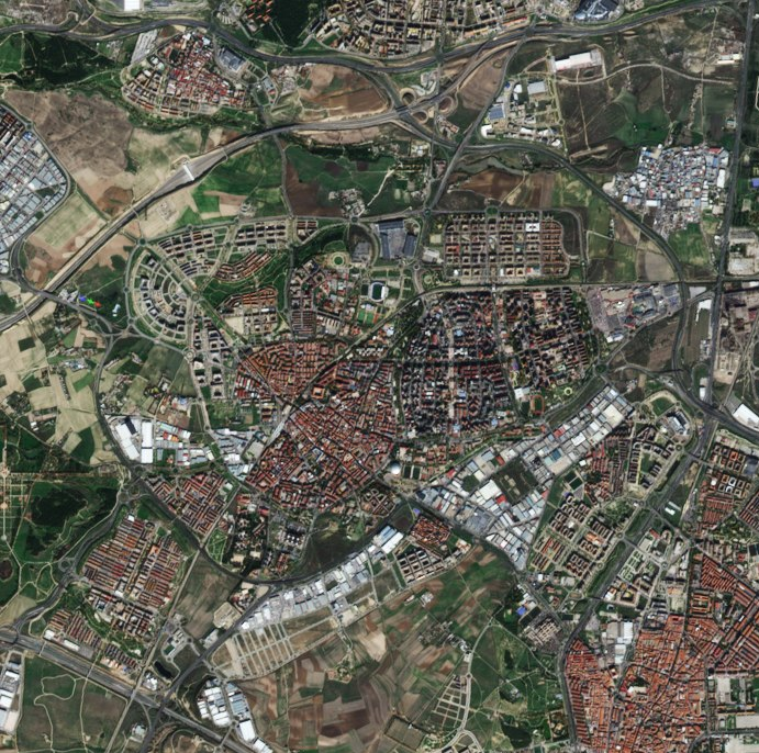 The diverse landscapes of the autonomous Community of Madrid in the heart of Spain are evident in this week’s image. The community and country’s capital city is visible near the centre of the image. Zooming in, we can see the Buen Retiro park just east of the city centre with its large, artificial pond. About 3.5 km due north sits the Santiago Bernabéu football stadium. Southeast of the stadium we can see another circular structure: the Las Ventas bullfighting ring. In the upper left corner of the image is the El Pardo mountain and protected natural park, which is popular for mountain biking. The other areas surrounding Madrid are blanketed with agricultural structures. East of the city are large fields along the Jarama river, and more areas of agriculture appearing brown further east still. This image, also featured on theEarth from Space video programme, was taken by the Sentinel-2A satellite on 16 November 2015. Launched in June 2015, Sentinel-2 can map changes in land cover such as forest, crops, grassland, water surfaces and artificial cover like roads and buildings in cities. Early results from the mission on mapping changes in land cover are expected to be presented at the upcoming Living Planet Symposium, held in Prague in May. The event brings together scientists and users to present their latest findings on Earth’s environment and climate derived from satellite data.